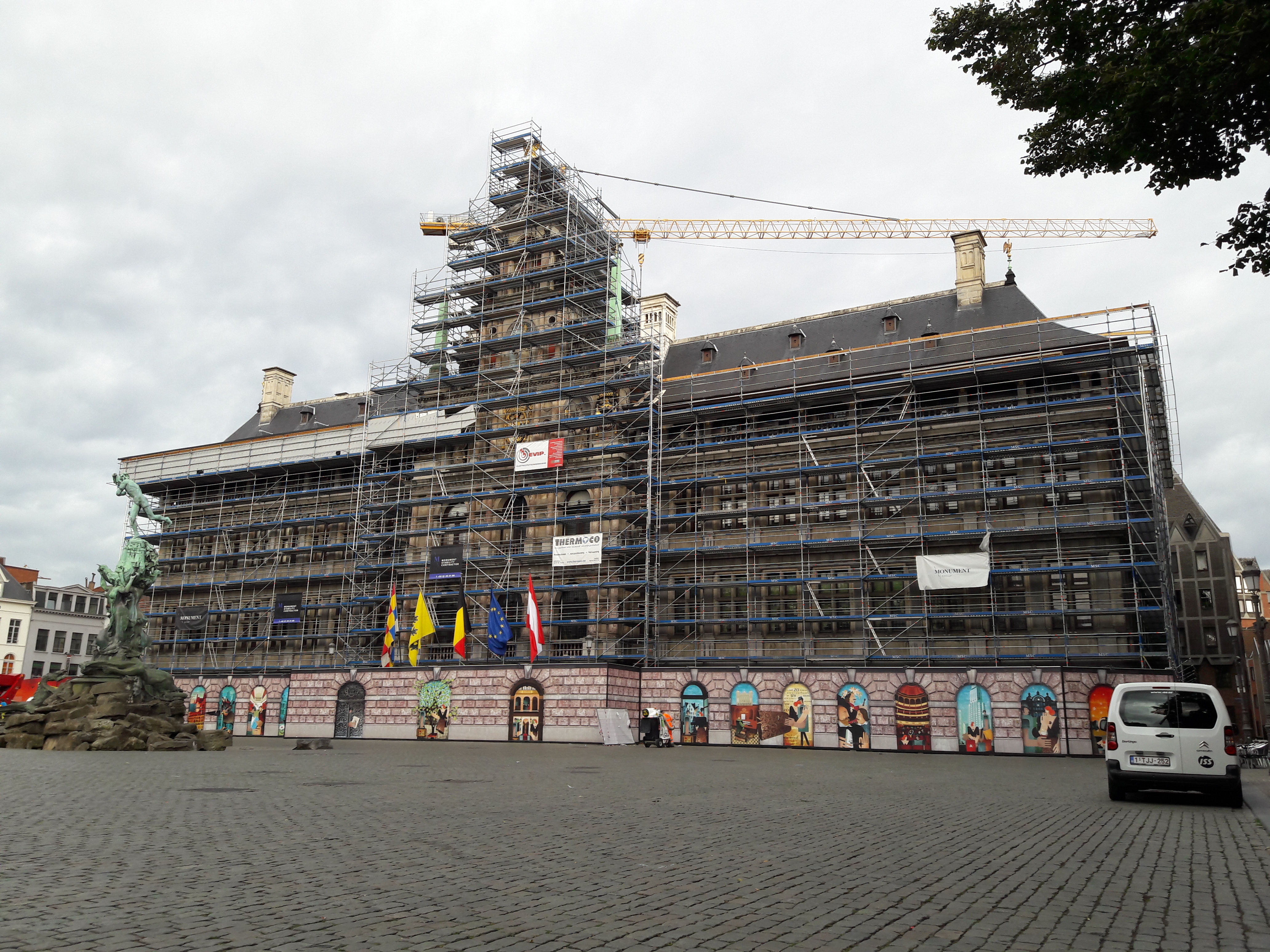 Town Hall in scaffolding. Restauration 2018-2020.